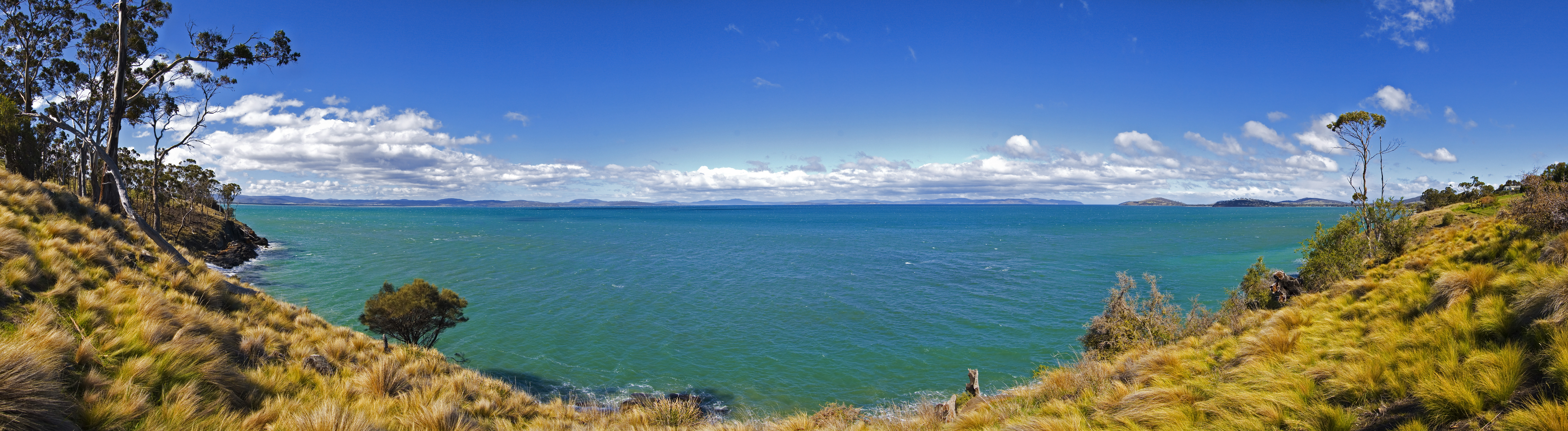 Panorama of Frederick Henry Bay in South Eastern Tasmania taken from Acton Park.